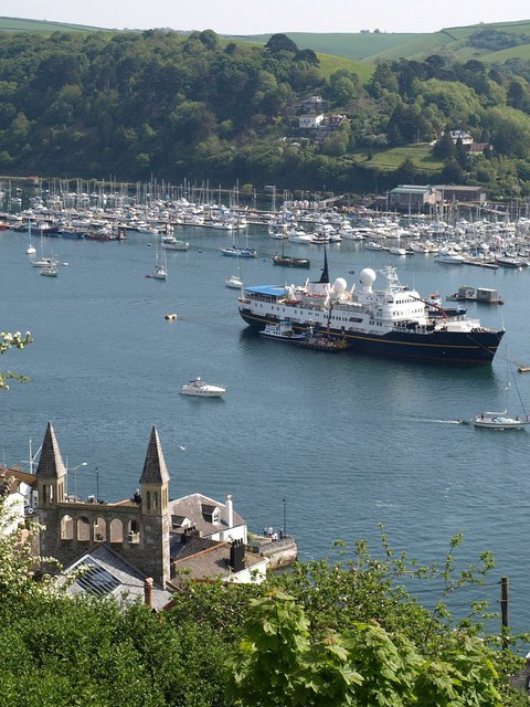 Andrea on the Dart The cruise ship MS Andrea moored off Dartmouth, with Darthaven Marina beyond. Seen from Jawbones Hill.